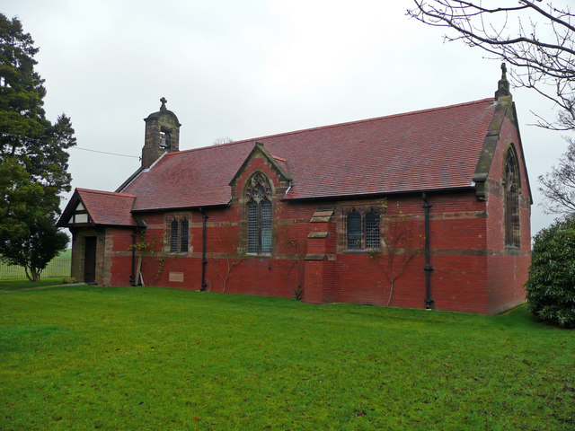 All Saints church, Balterley Constructed of brick and red sandstone, standing north of the B5500.